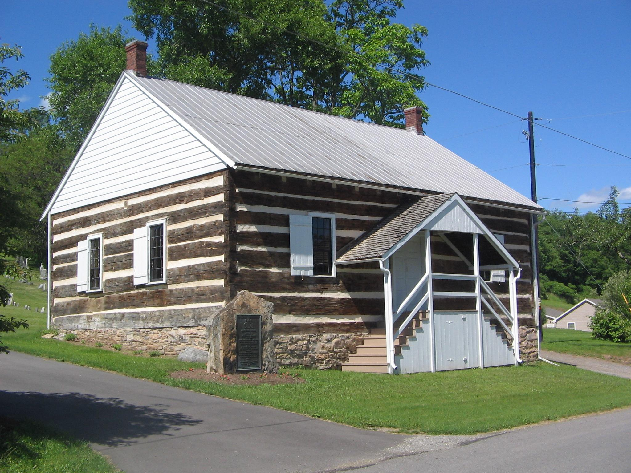 Bloominggrove Dunkard Church, built ca. 1805, Hepburn Township, Lycoming County, Pennsylvania, USA